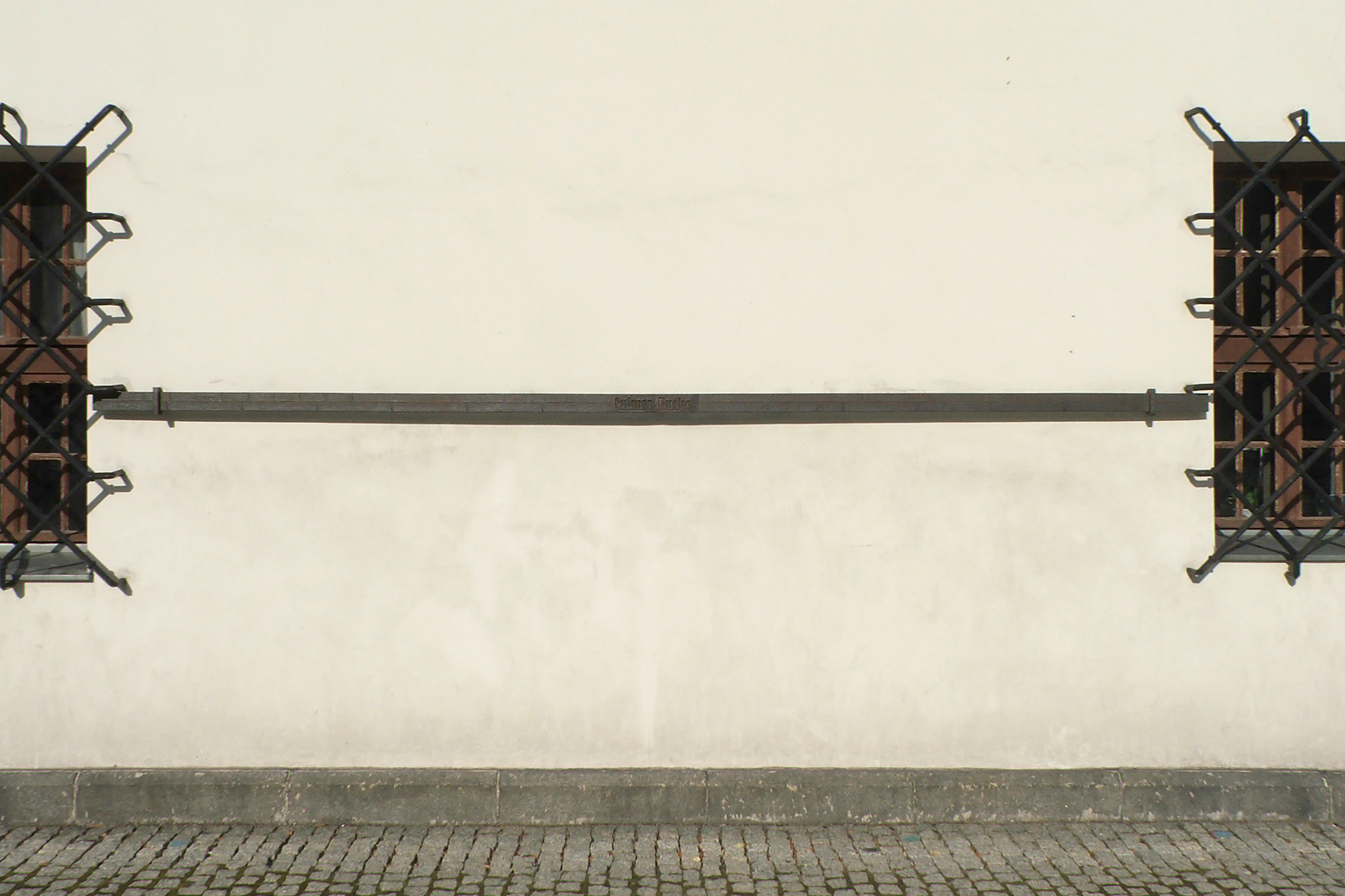 Etalon on wall of City Hall in Chełmno, Poland, showing length of Chełmnian rod (official medieval measure)